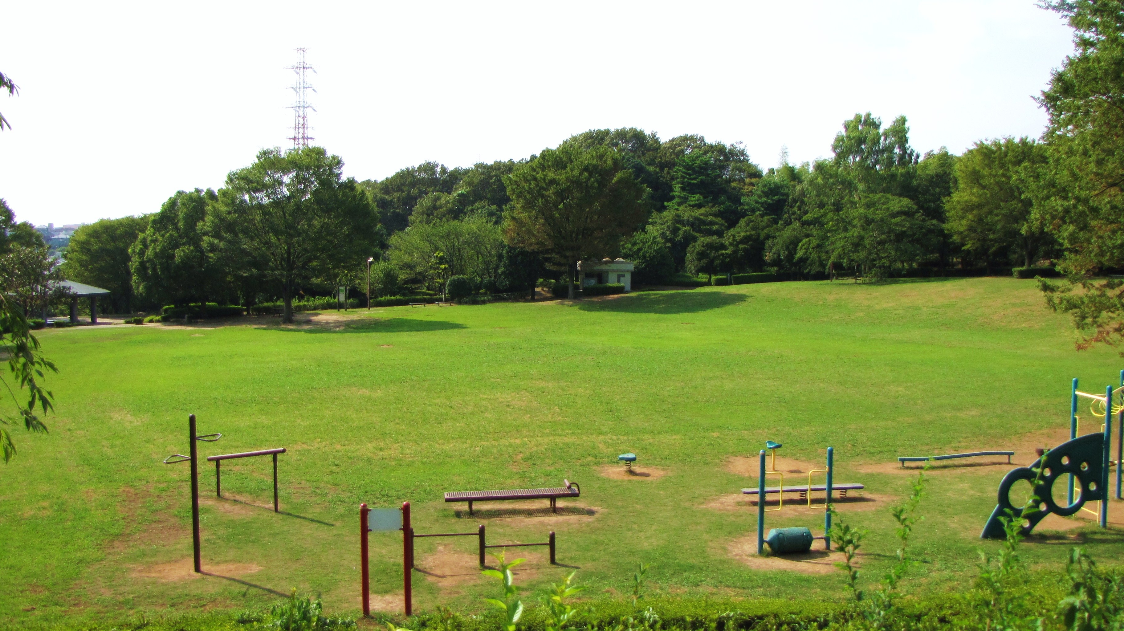 Ōzenji park that located in Asao Ward, Kawasaki City.